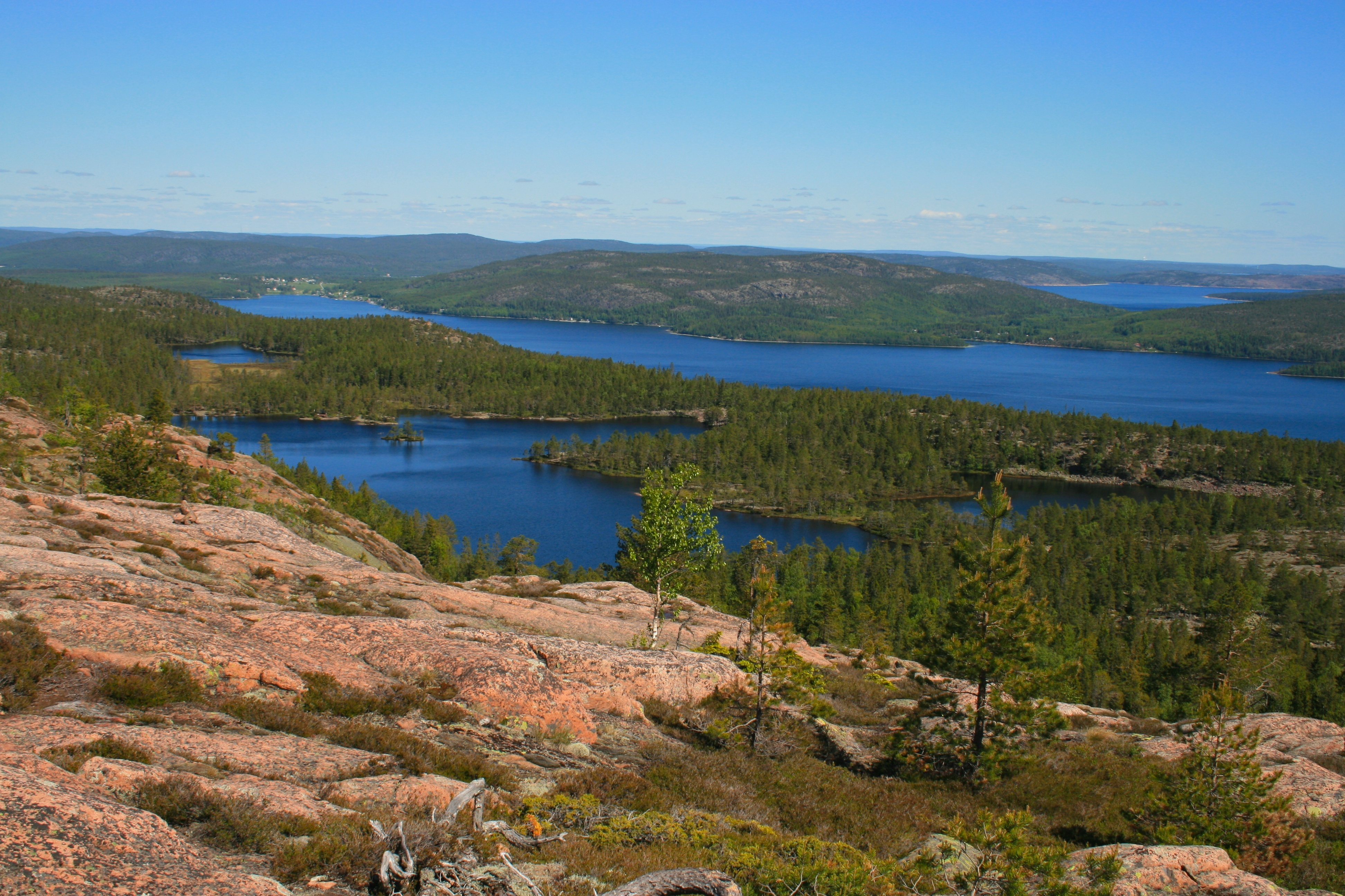 View from Slåttdalsberget, with Tärnättvatten lake in the foreground.